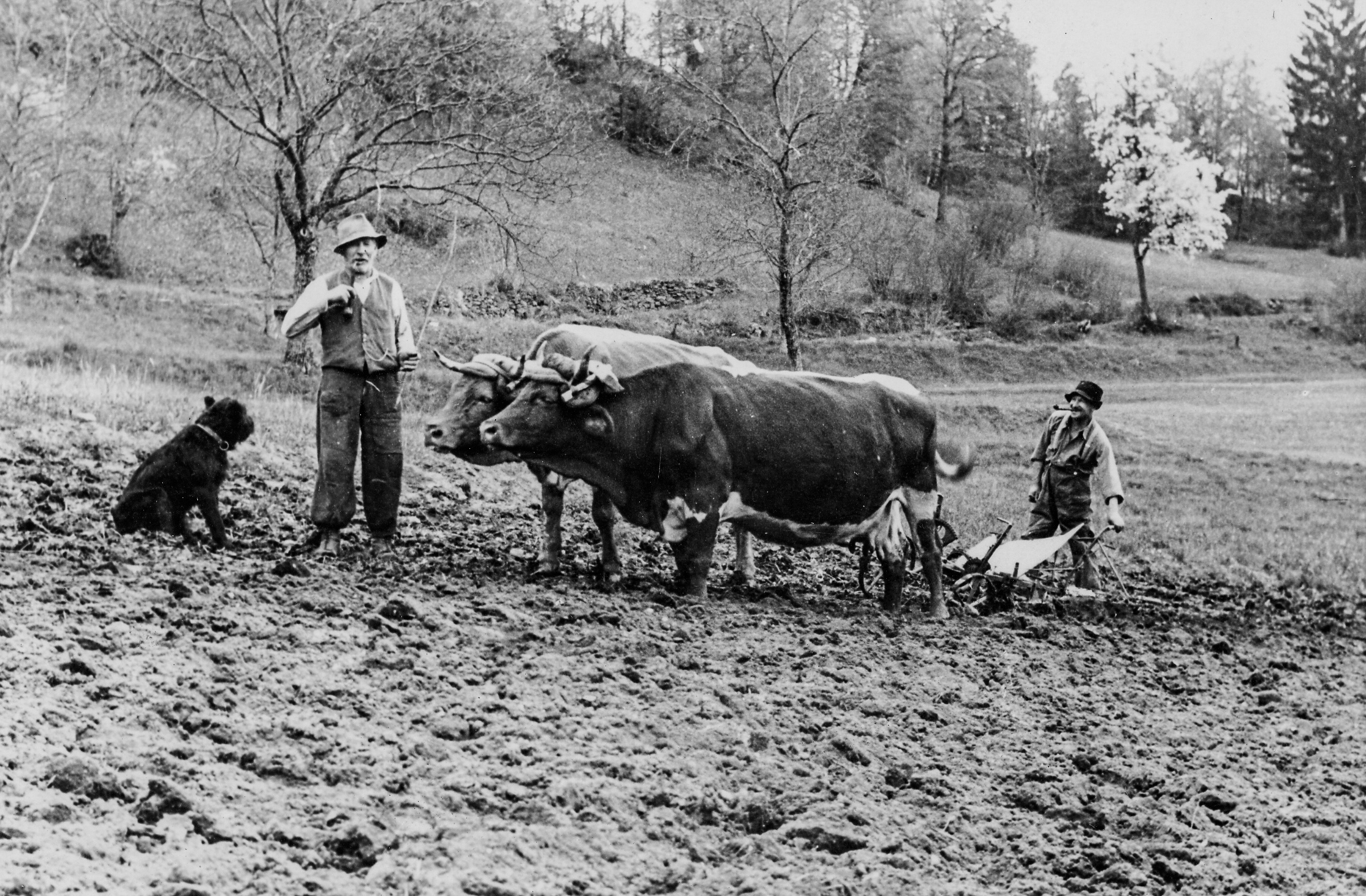 Small farmer ploughs the field with two cows in Dellach at Lake Millstatt in Carinthia / Austria / EU around 1910. Postcard inscription: “Dellach am Millstätter See”. In the middle of the picture you can see the former Gasthof Brugger.